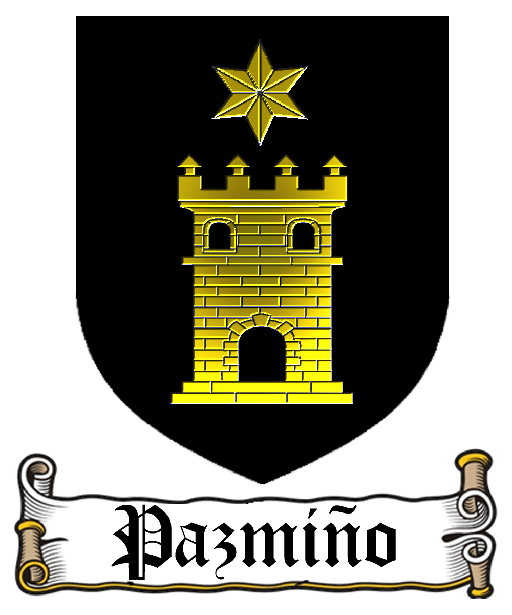 Heraldic Blazon - Pazmiño General details: Lineage based in Quito, Ecuador. Enamel and symbols: In a field of sable, a golden tower, surmounted by a golden star.